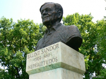 Sándor Bálint, büszt. Sculptor: Márton Kalmár (*1946) in 2004